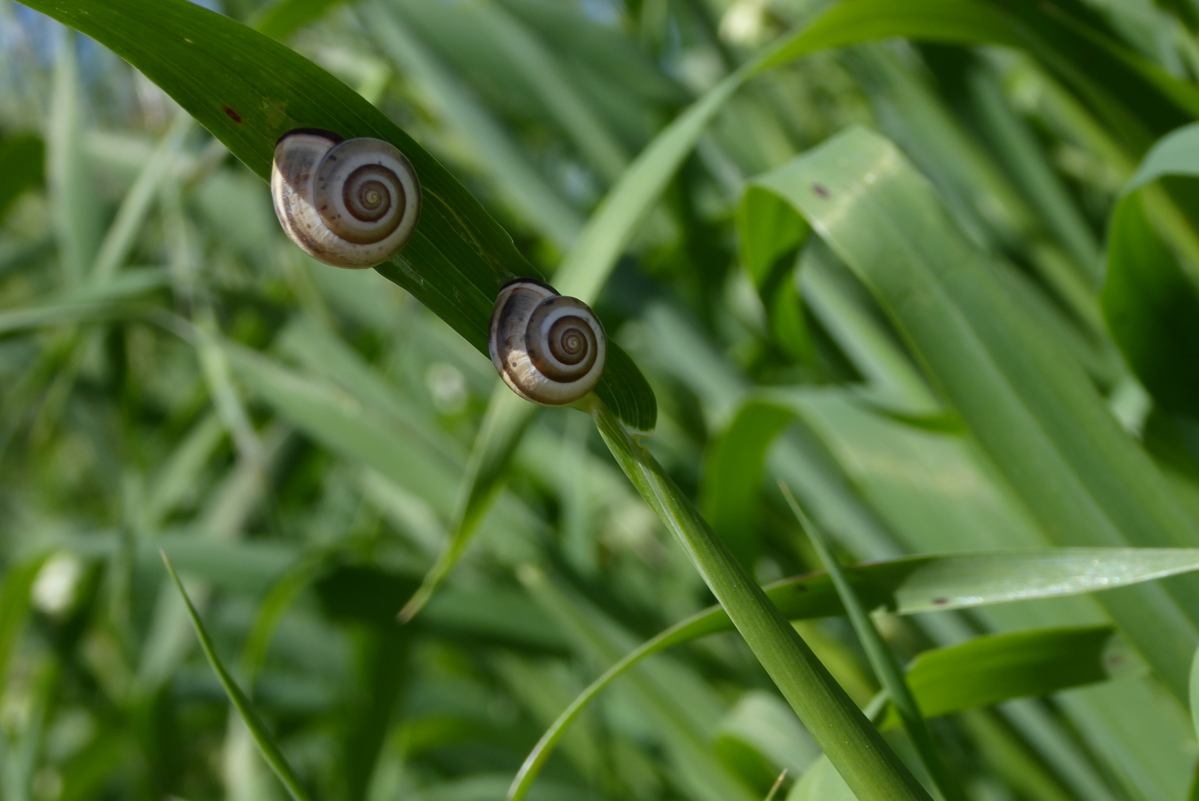 Savion blossoms